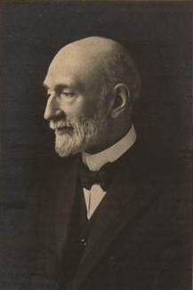 Jules Van Den Heuvel, belgian politician °1855 +1926